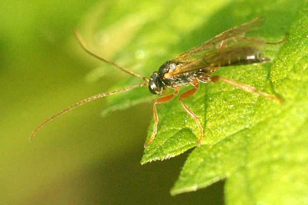 Plectiscus ridibundus from Commanster, Belgian High Ardennes .